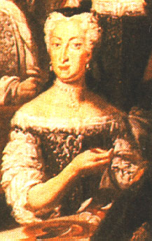 Portrait of Empress Wilhelmina Amalia of Brunswick, wife of Emperor Joseph I (detail of Wedding breakfast of Maria Theresa of Austria and Francis of Lorraine)